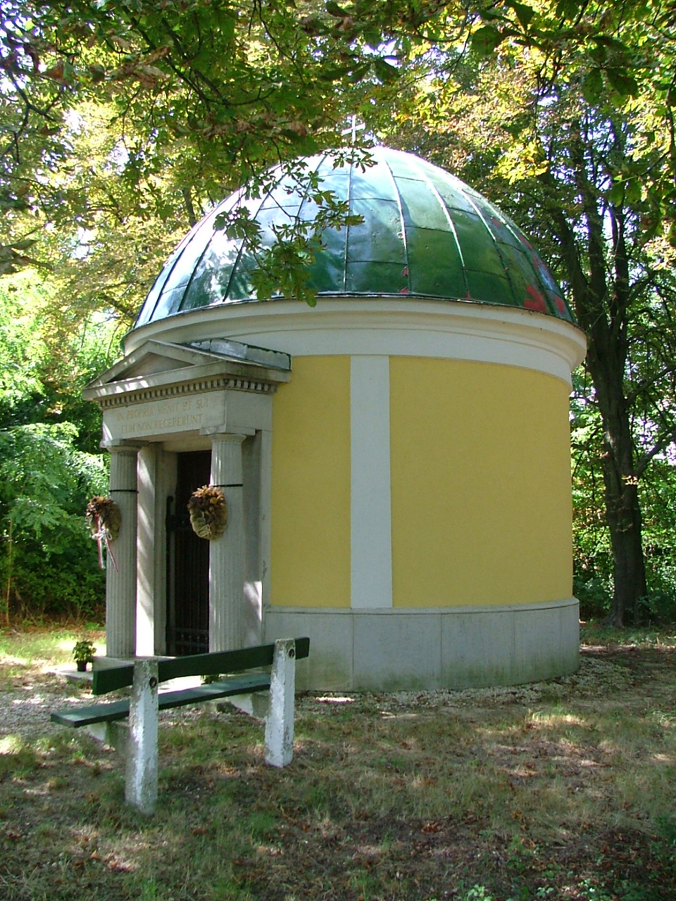 Cirák, Király chapel